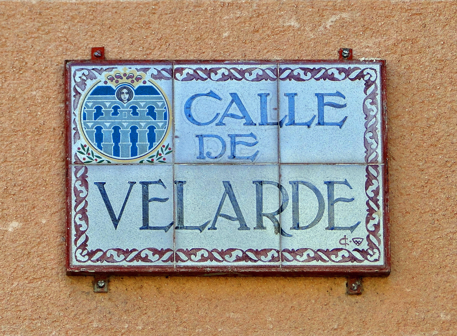 Street sign of Calle de Valarde, Segovia, Spain